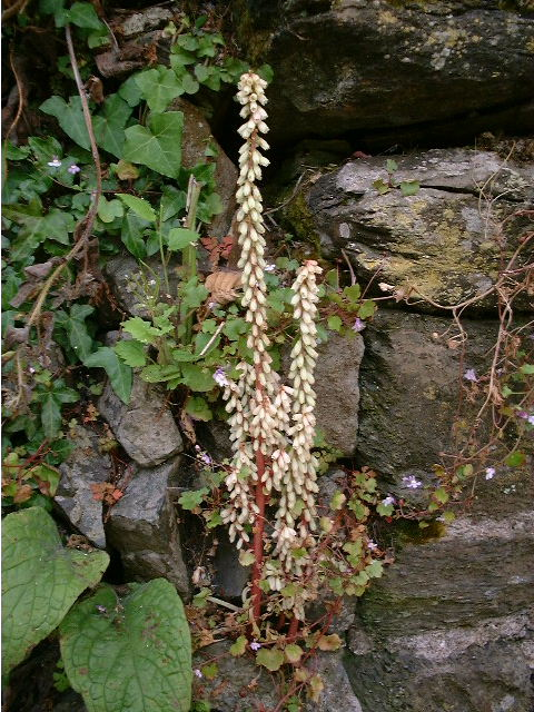 Umbilicus rupestris in flower in coastal Devon